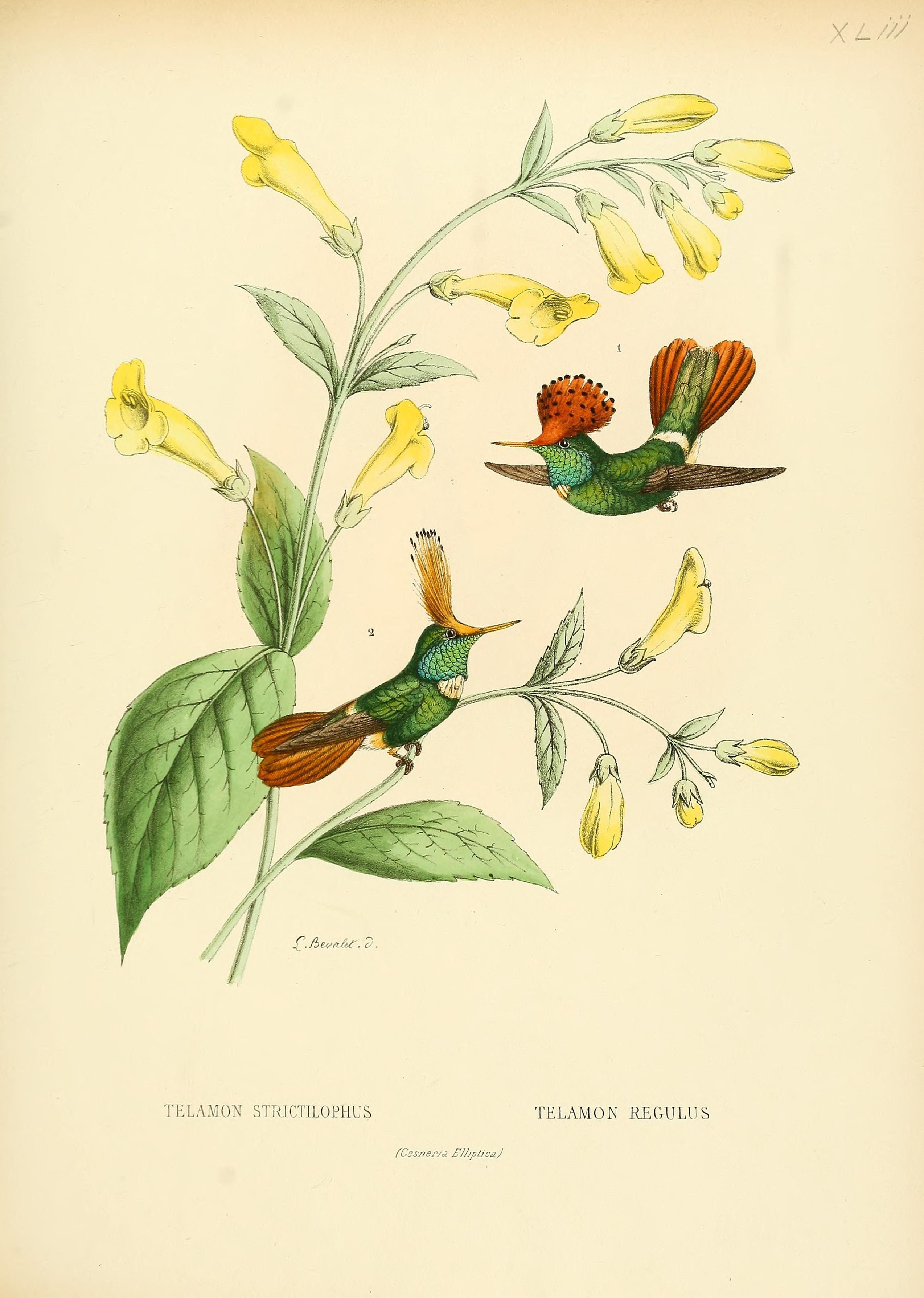 Telamon strictilophus & Telamon regulus hummingbirds. Hand Colored Lithograph. 12 1/2 x 9 inches Now Lophornis stictolophus (Spangled Coquette) and Lophornis delattrei (Rufous-crested Coquette)